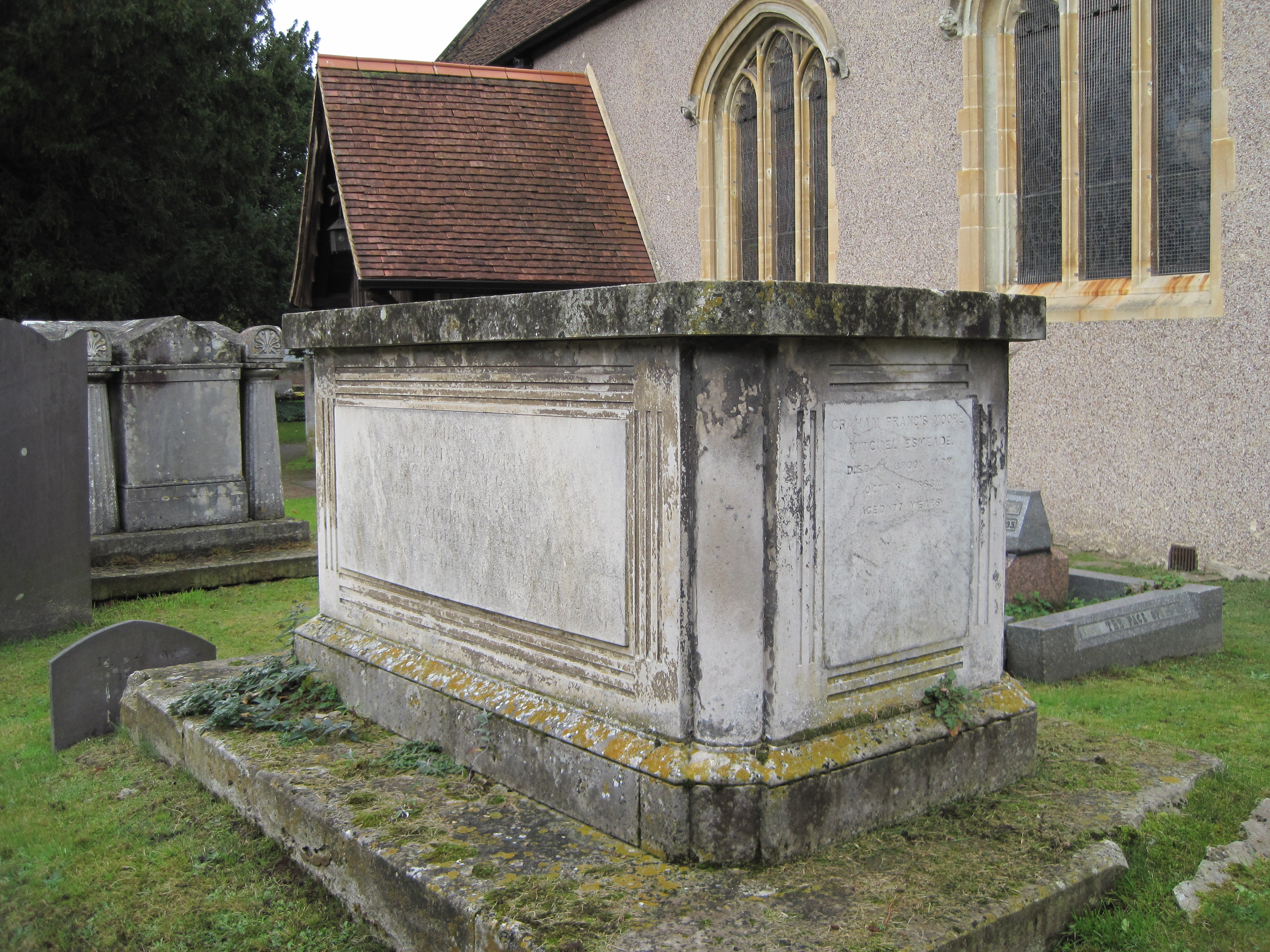 Tomb of Admiral Sir Graham Moore, St. Andrew's Church, Cobham, Surrey: Grade II listed monument.